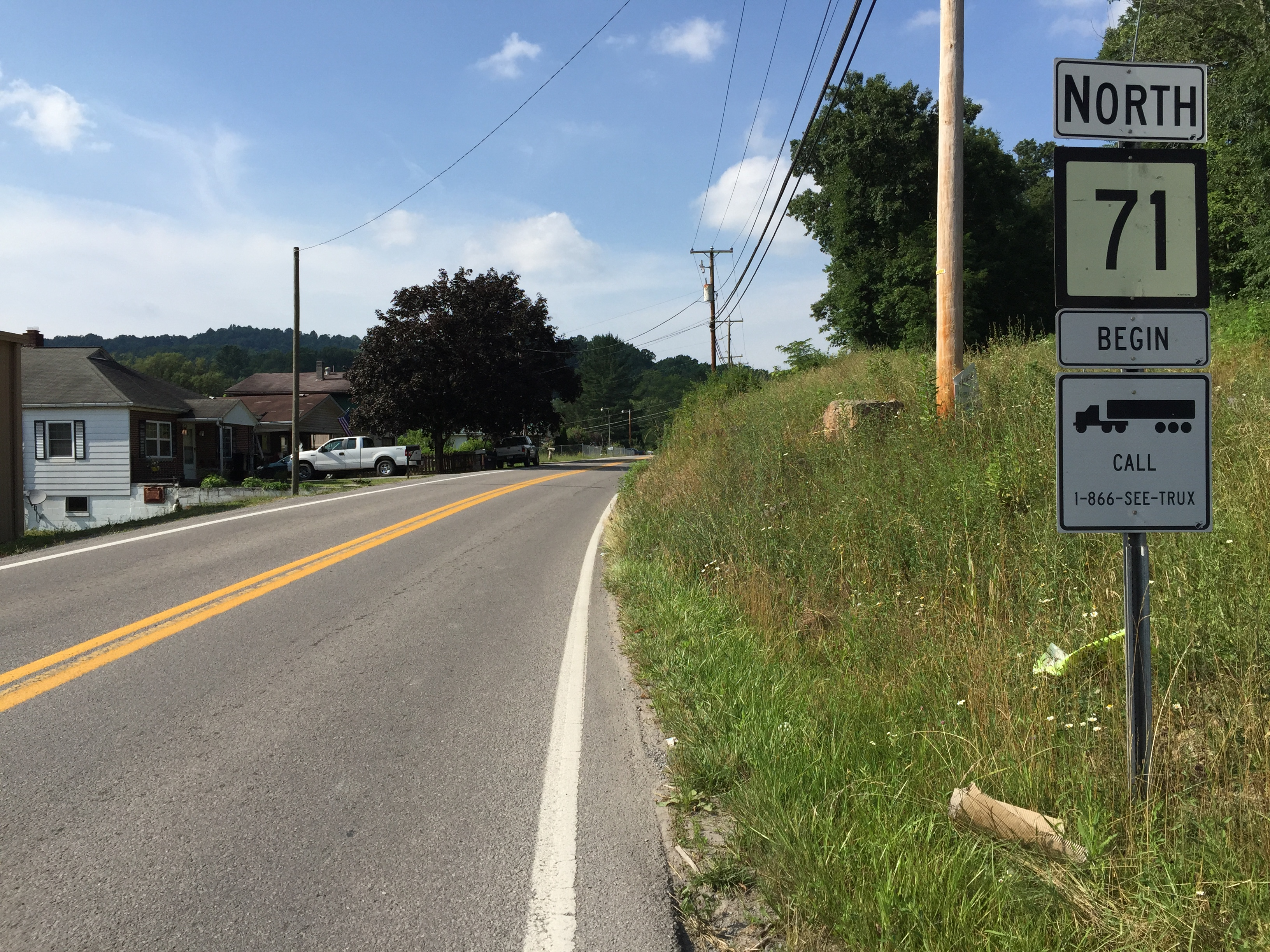 View north along West Virginia State Route 71 (Lorton Lick Road) at U.S. Route 52 (Coal Heritage Road) in Bluewell, Mercer County, West Virginia